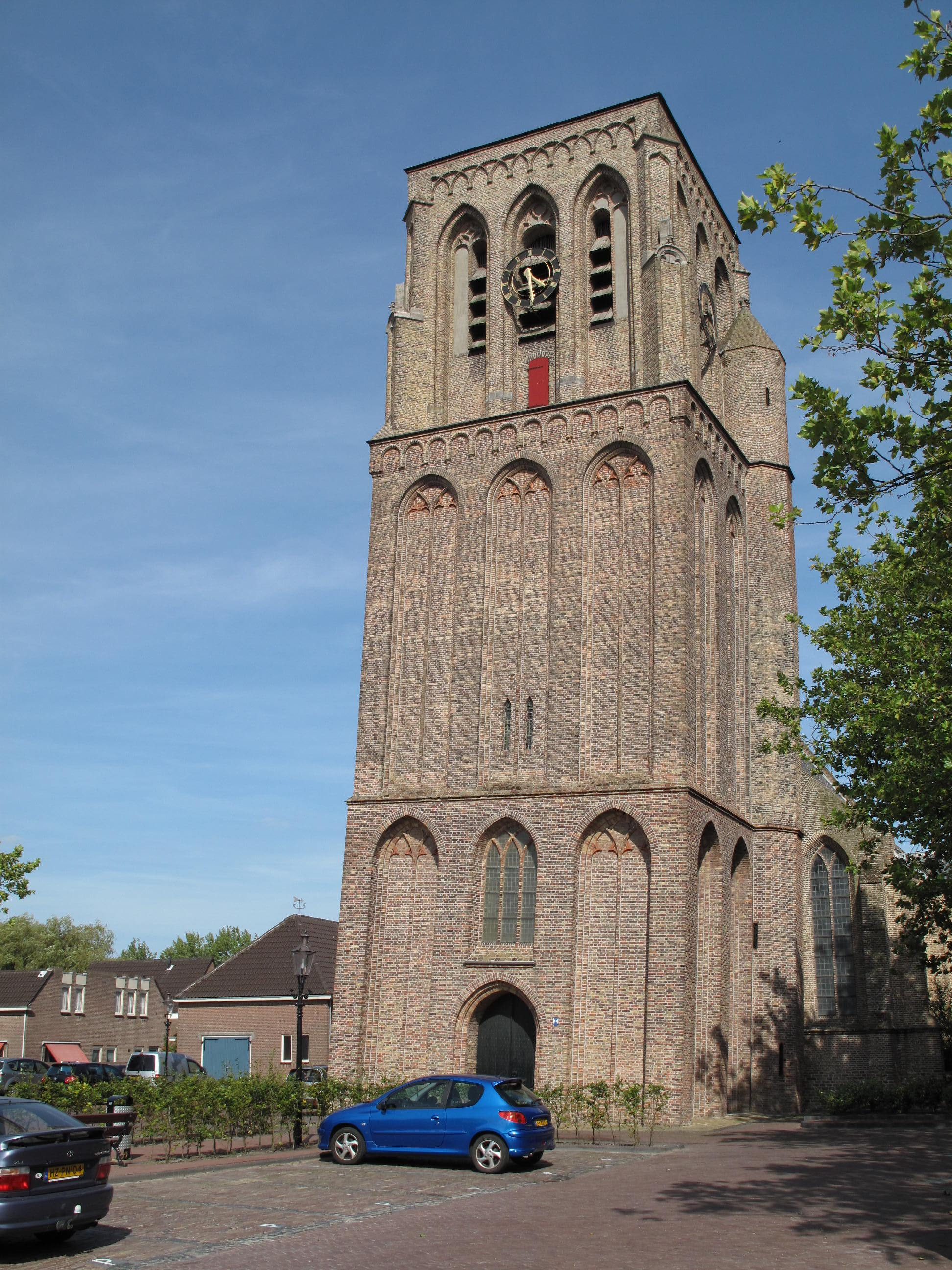 De Lier, church